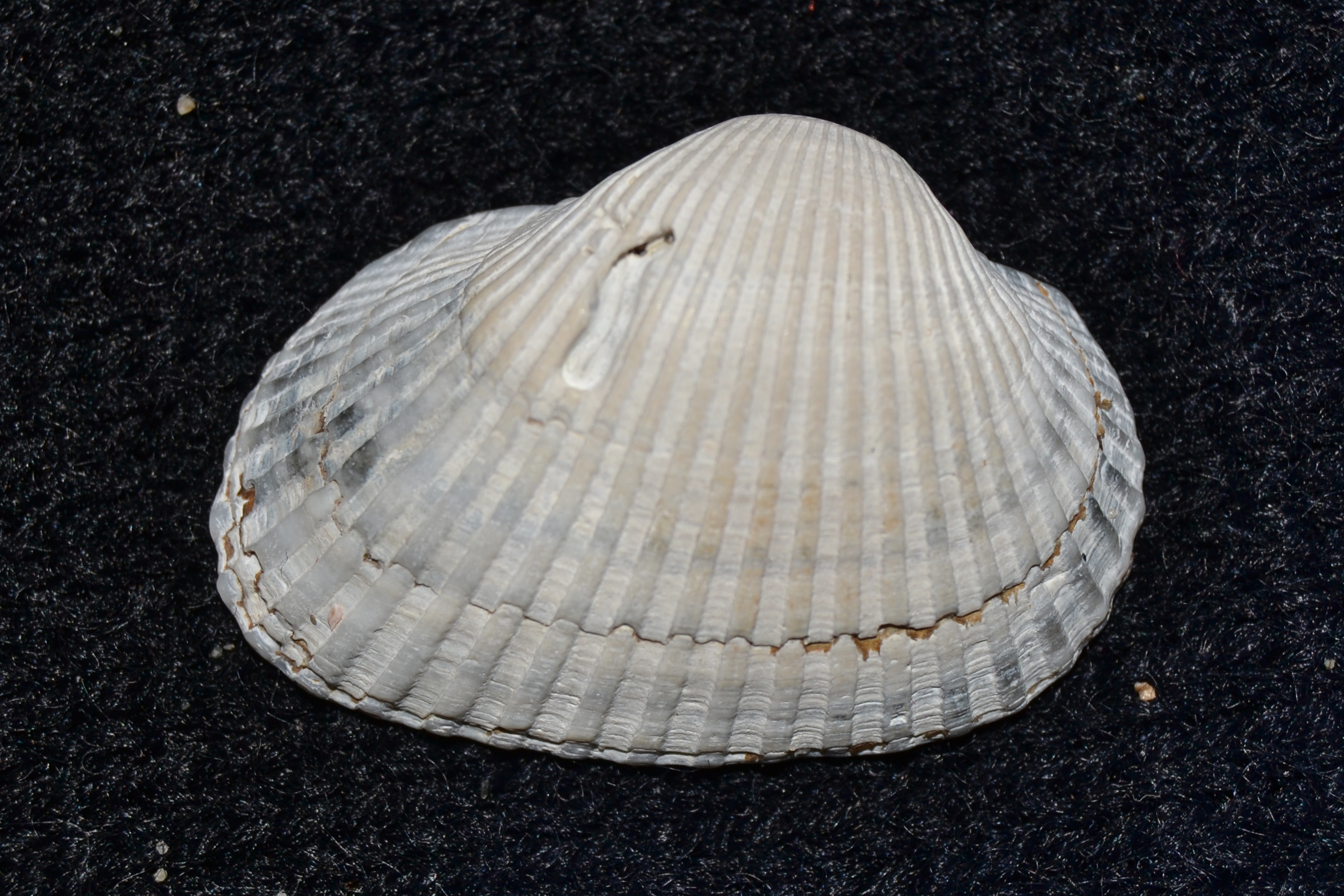 Hammonasset State Park, Madison, Connecticut